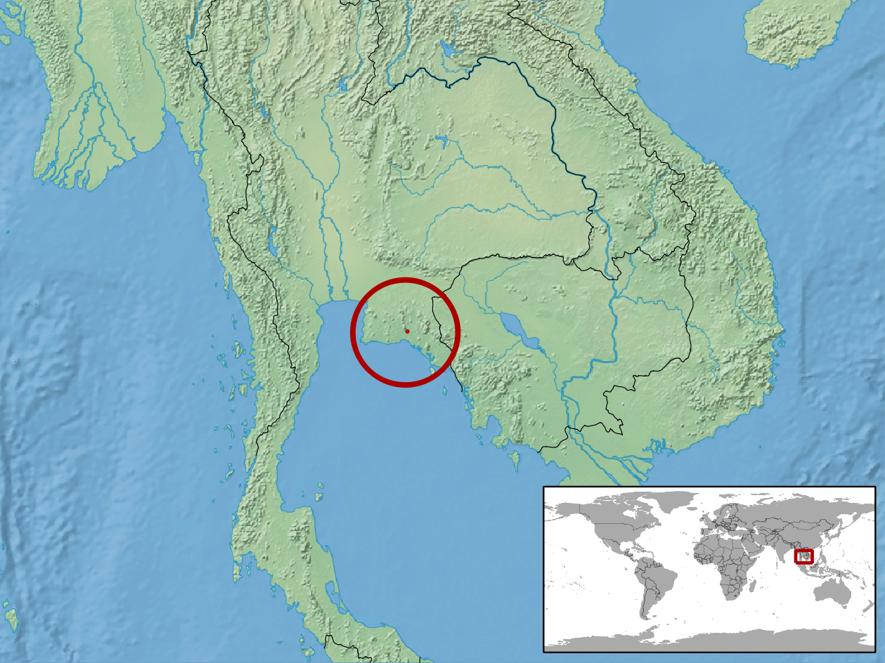 geographic distribution of Cyrtodactylus sumonthai (Native: Thailand)